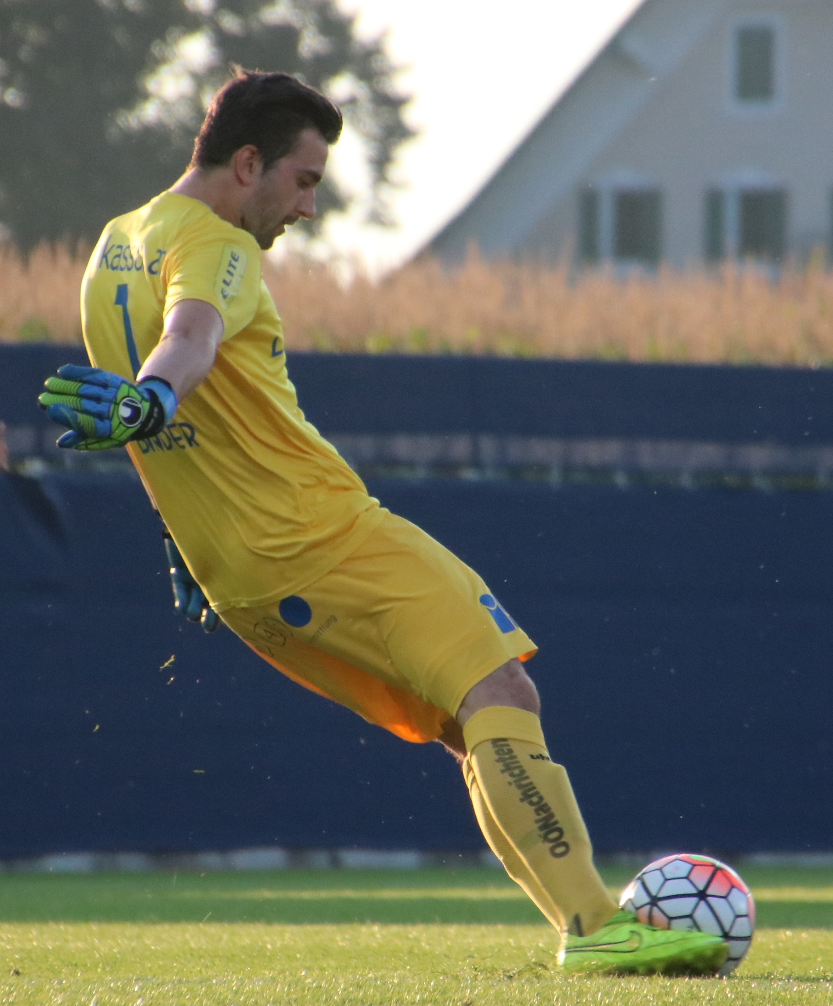 league match Austria 2nd league